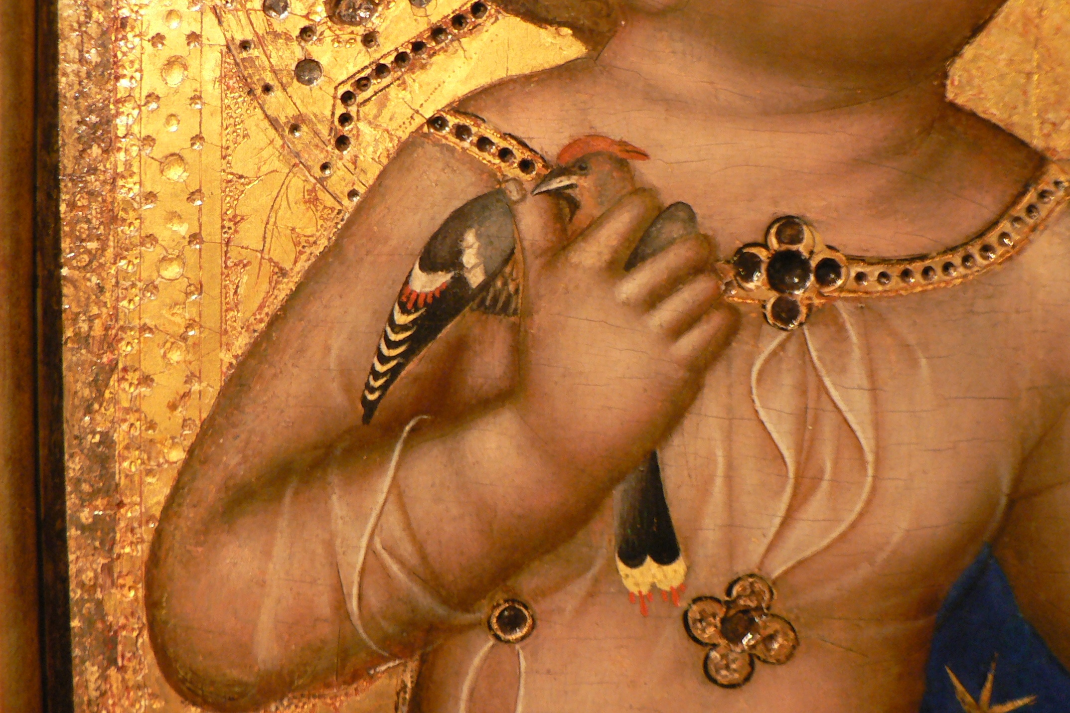 Madonna of Zbraslav (1350-1360) - detail of painting with Waxwing.